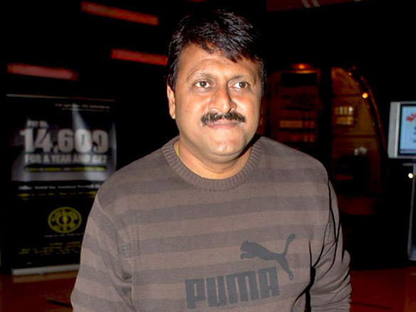 Vijay Patkar at audio release of the 2009 Hindi film Daddy Cool.